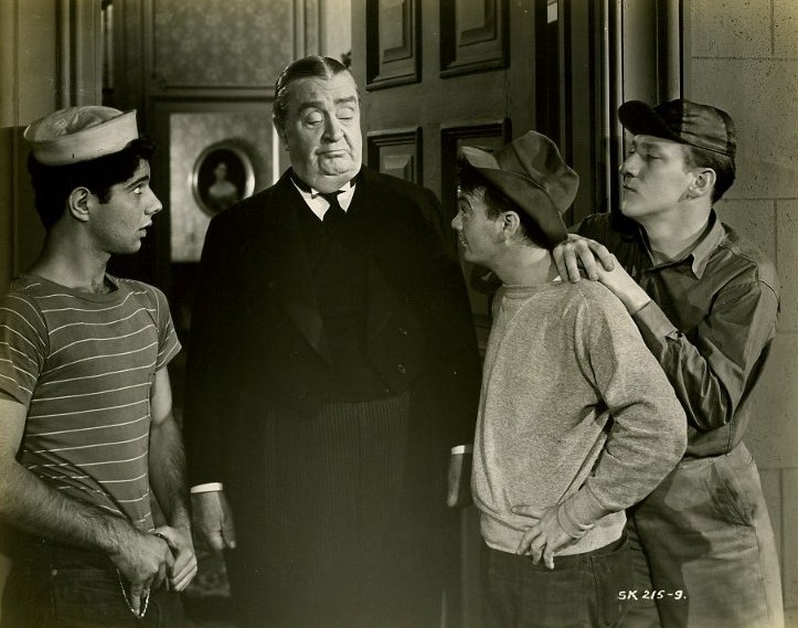 Left to right: Gabriel Dell, Robert Greig, Leo Gorcey, and Huntz Hall in the film Million Dollar Kid (1944) - publicity still (original image cropped : see source)